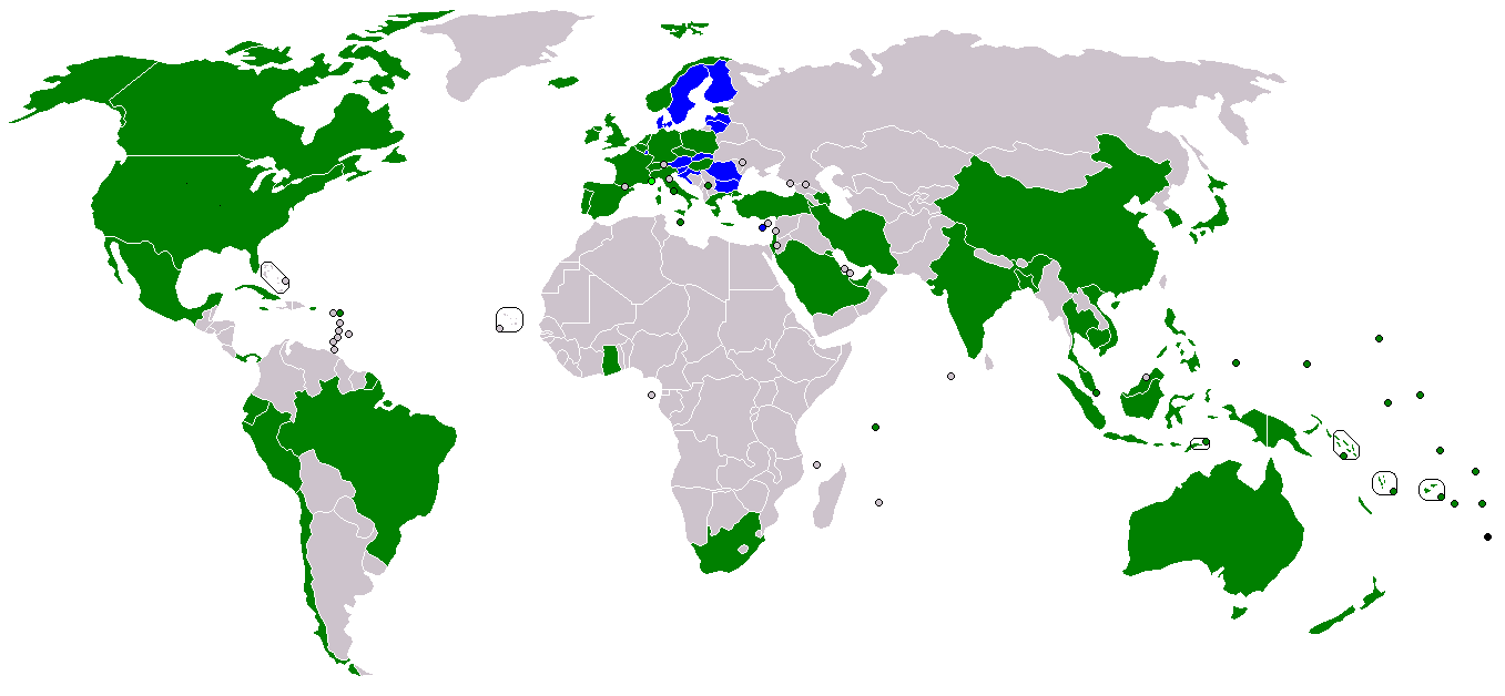 Dark green - diplomatic relations, blue - the rest of the EU members (Cook Islands has diplomatic relations with the EU, but not individually with those in blue) Other information Based on File:World map model.png.